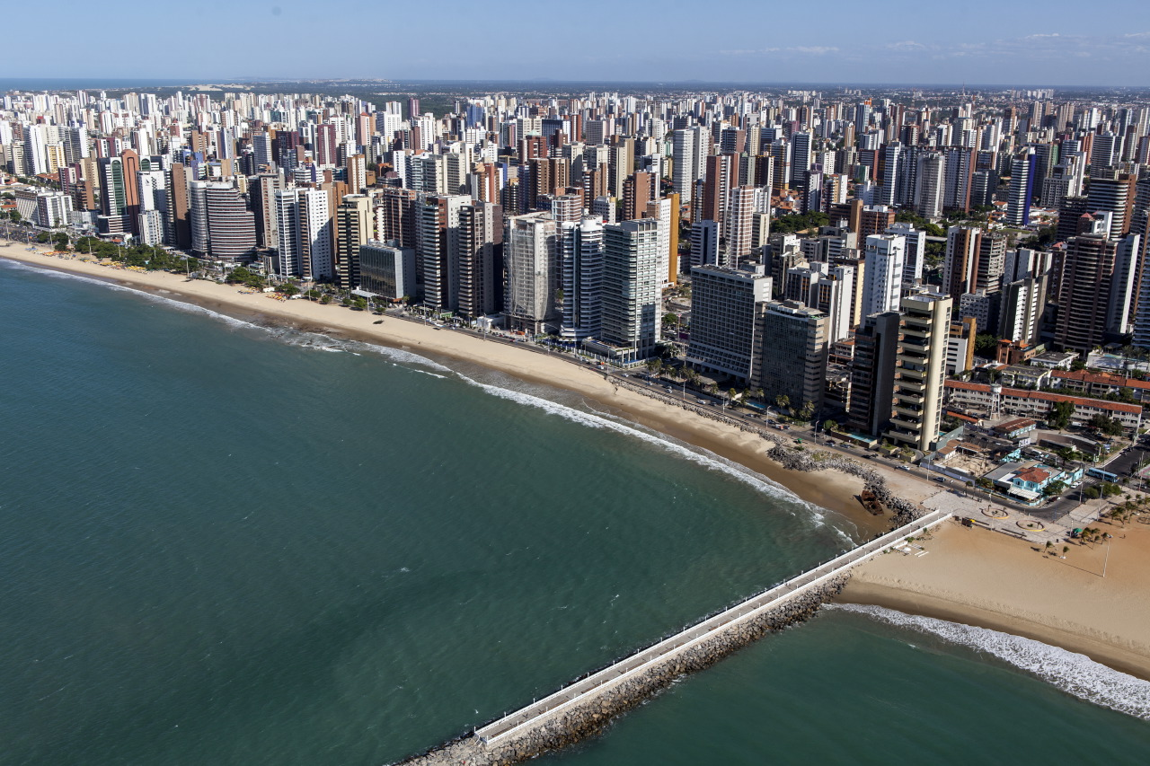 Seashore of Fortaleza